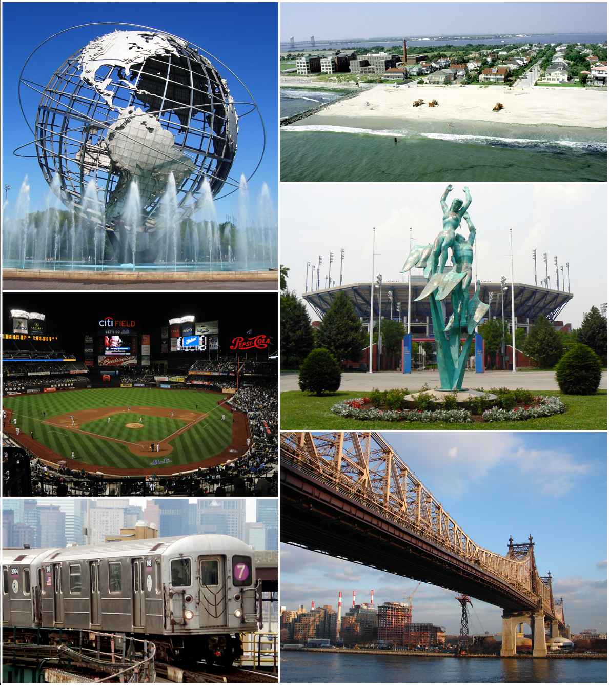 Photo montage of Queens, New York